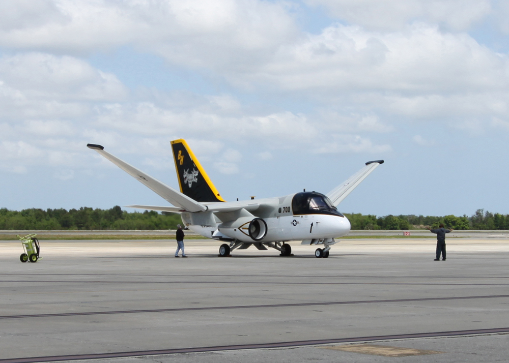 A U.S. Navy Fleet Readiness Center Southeast artisans check the wing fold operation on Lockheed S-3B Viking (BuNo 160147) from Air Test and Evaluation Squadron VX-30 Bloodhounds at Naval Air Station Jacksonville, Florida (USA) on 14 April 2010. The S-3Bs are used for surveillance on the Sea Test Range at the Pacific Missile Test Center Point Mugu, California (USA).